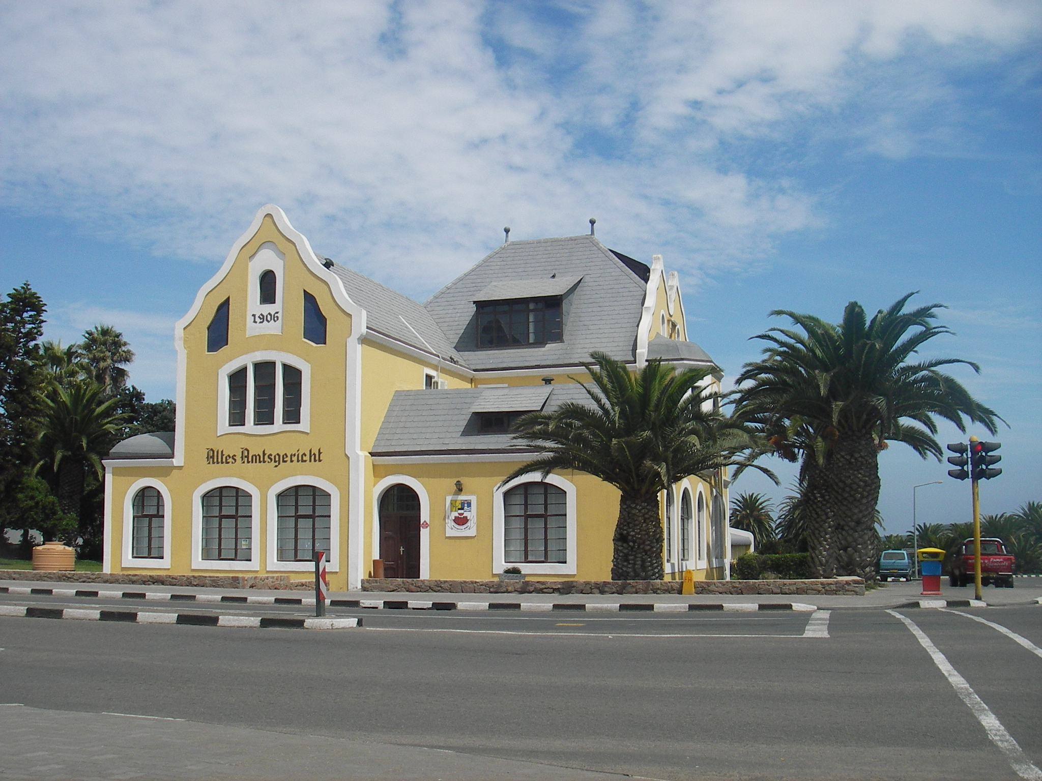 Old District Court in Swakopmund, Namibia